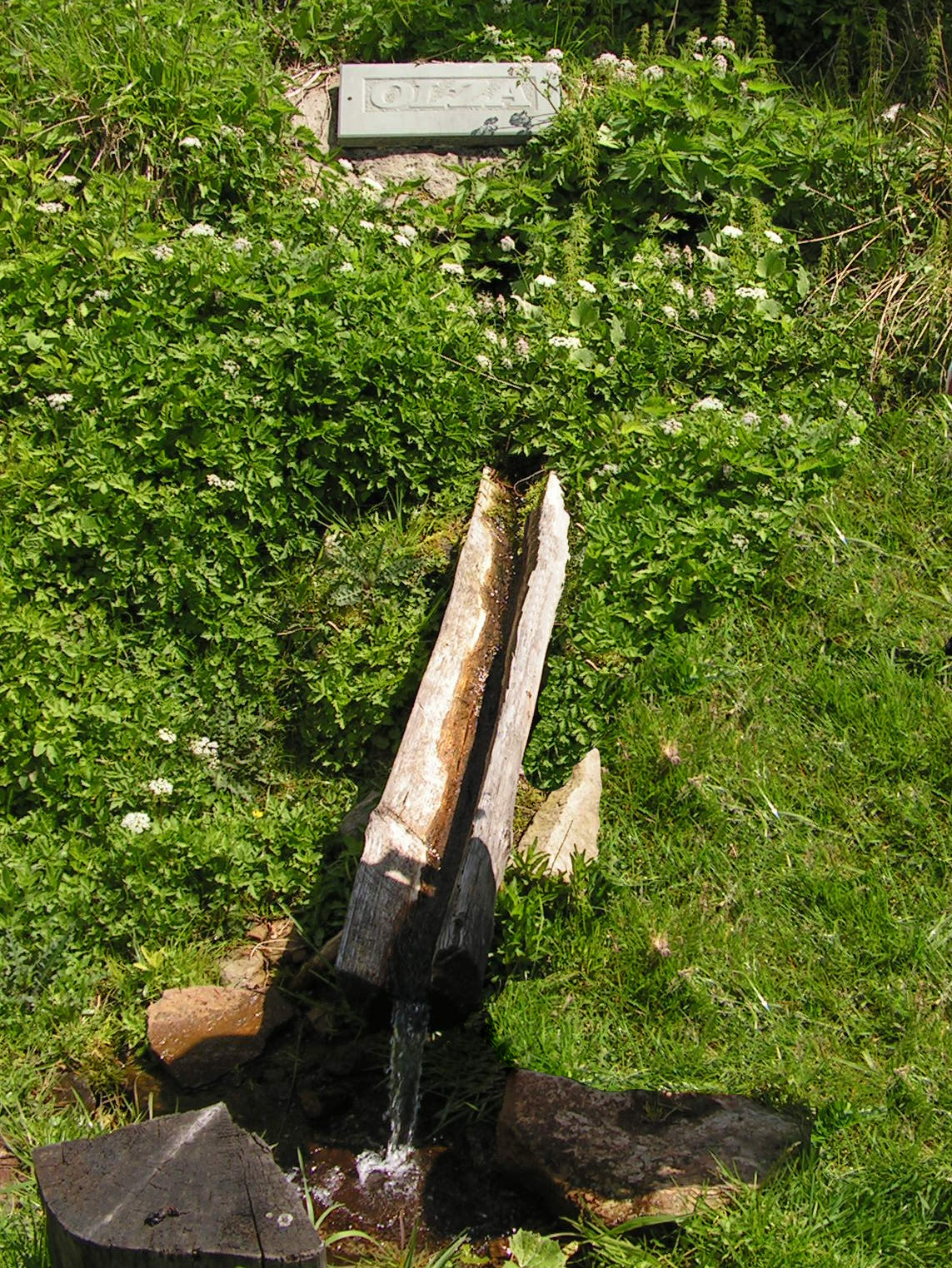 The source of Olza on Gańczorka.